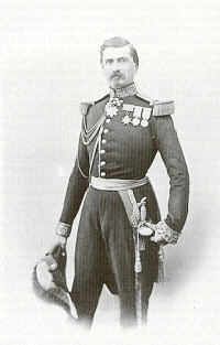 General Gustave Cler portrait